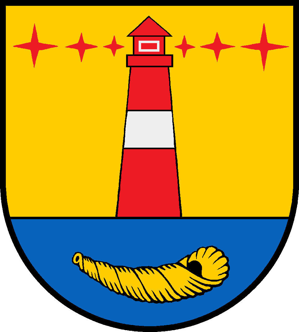 Coat of arms of the municipality Hörnum (Sylt) in Schleswig-Holstein, Germany.